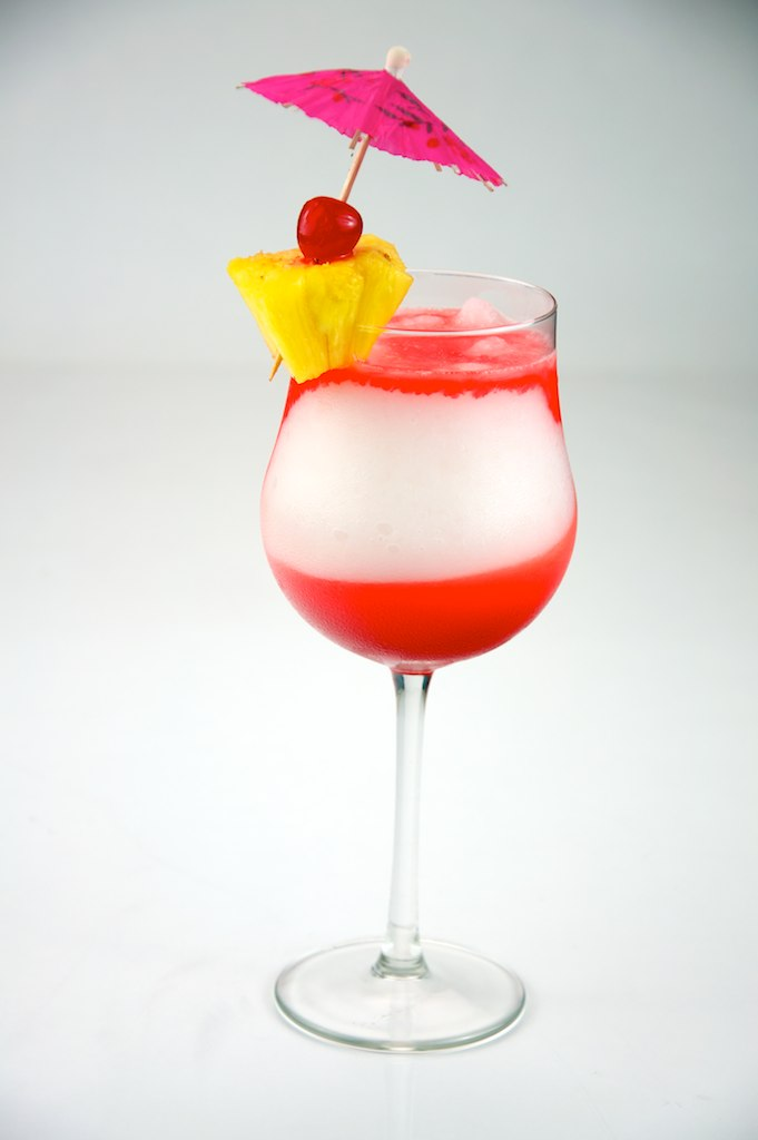 Pina Colada garnishes of pineapple and cherry with an umbrella